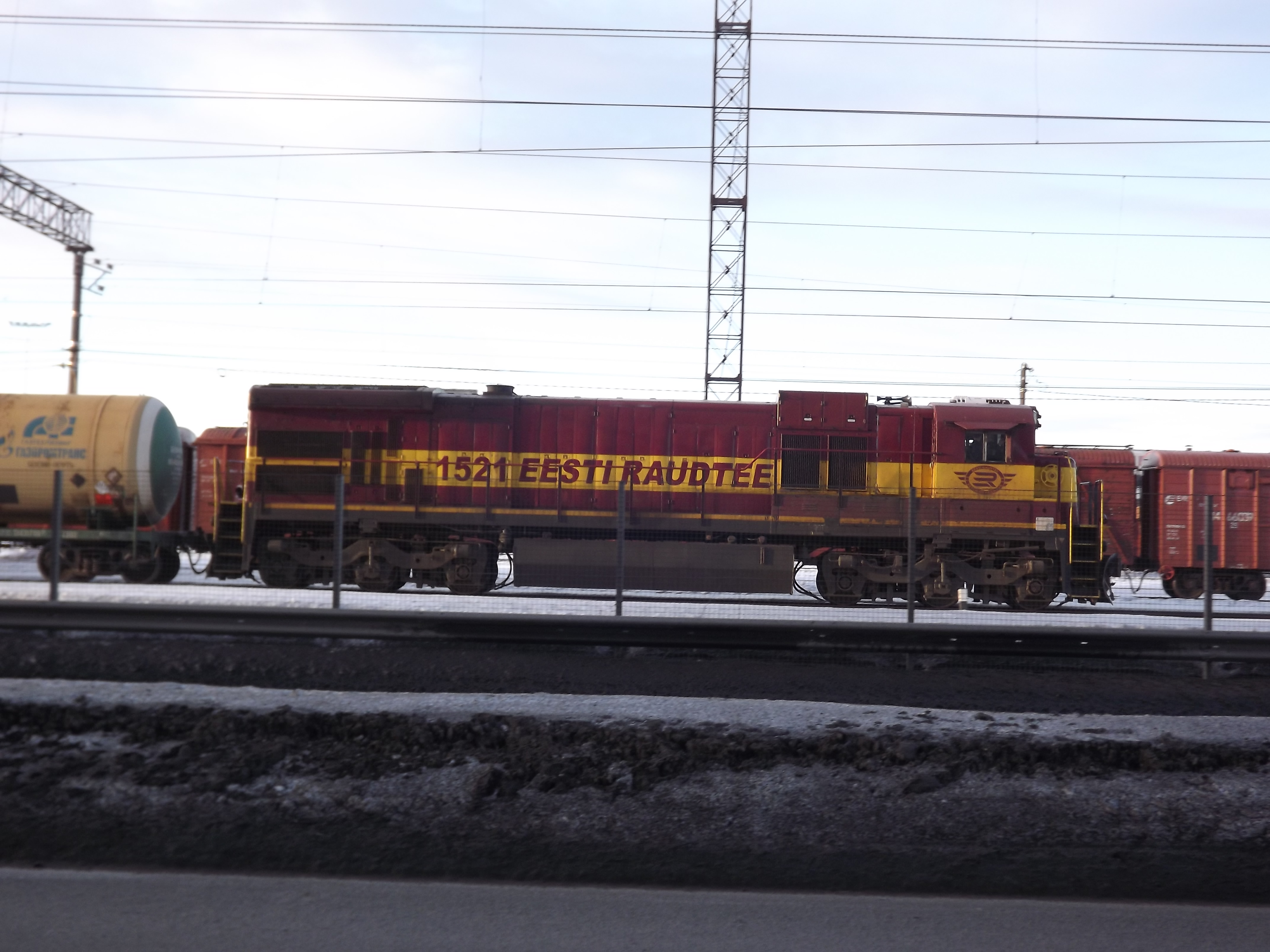 Diiselvedur C36-7i-1521 Ülemiste kaubajaamas